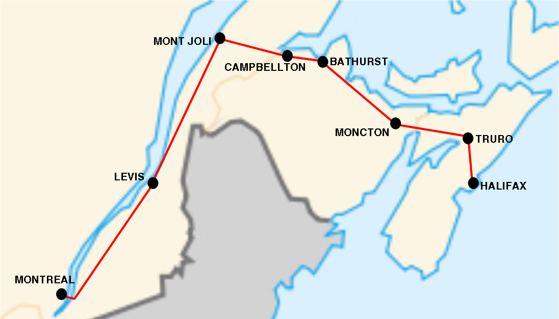 This image represents a map of the route of the Maritime Express, a passenger train operated by the Intercolonial and Canadian National Railways from 1898 to 1963.